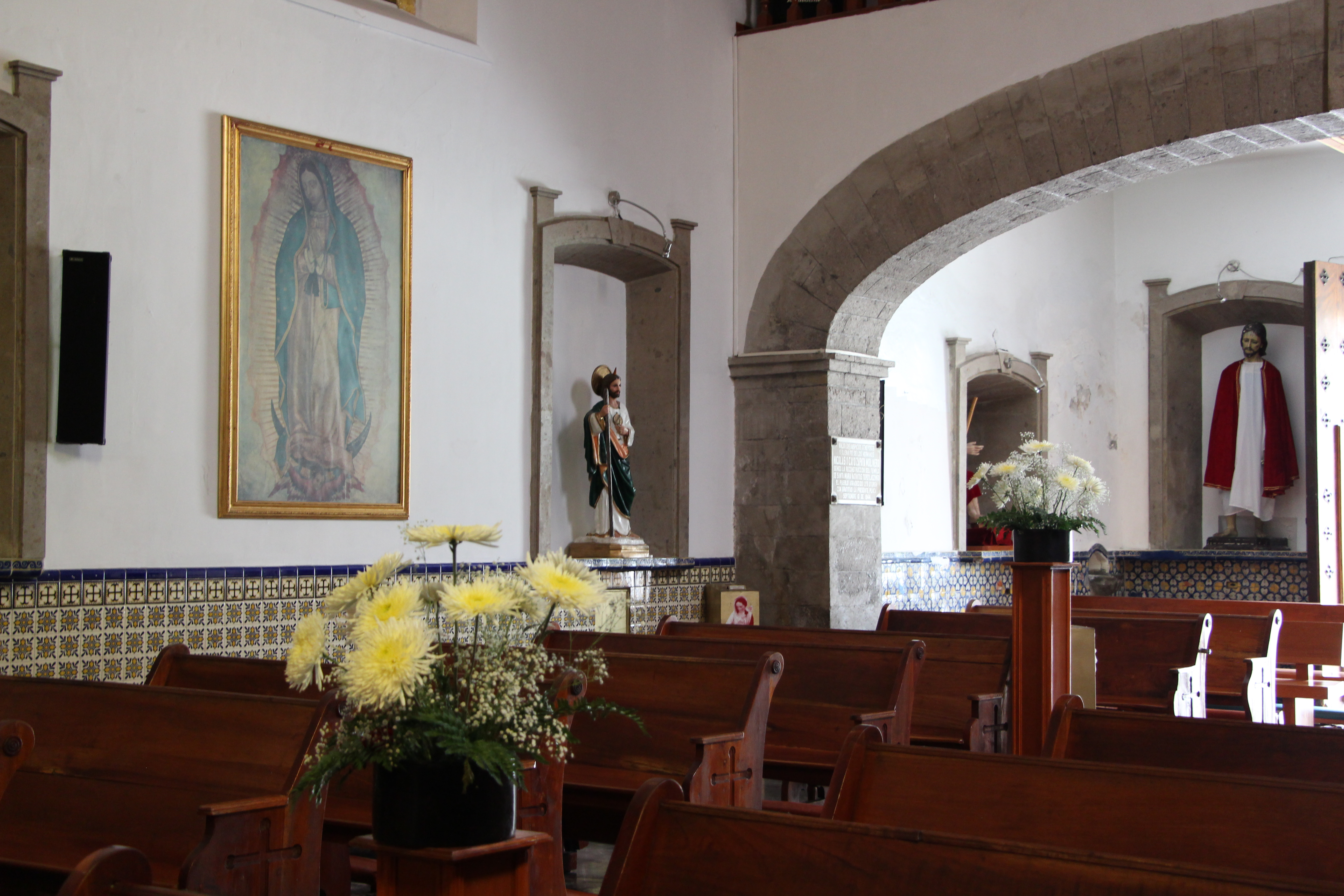 Wooden benches inside the parish, in the background is a painting of Virgen de Guadalupe and a figure of St. Jude Thaddeus. Located at Parroquia de Santa María de la Natividad, Mexico City.